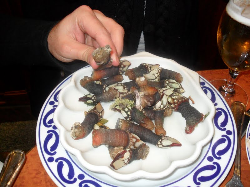 A dish of barnacles, in this case goose neck barnacle (Pollicipes pollicipes)